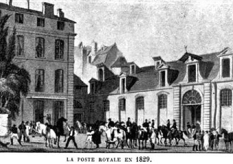 The Royal Post in France, 1829